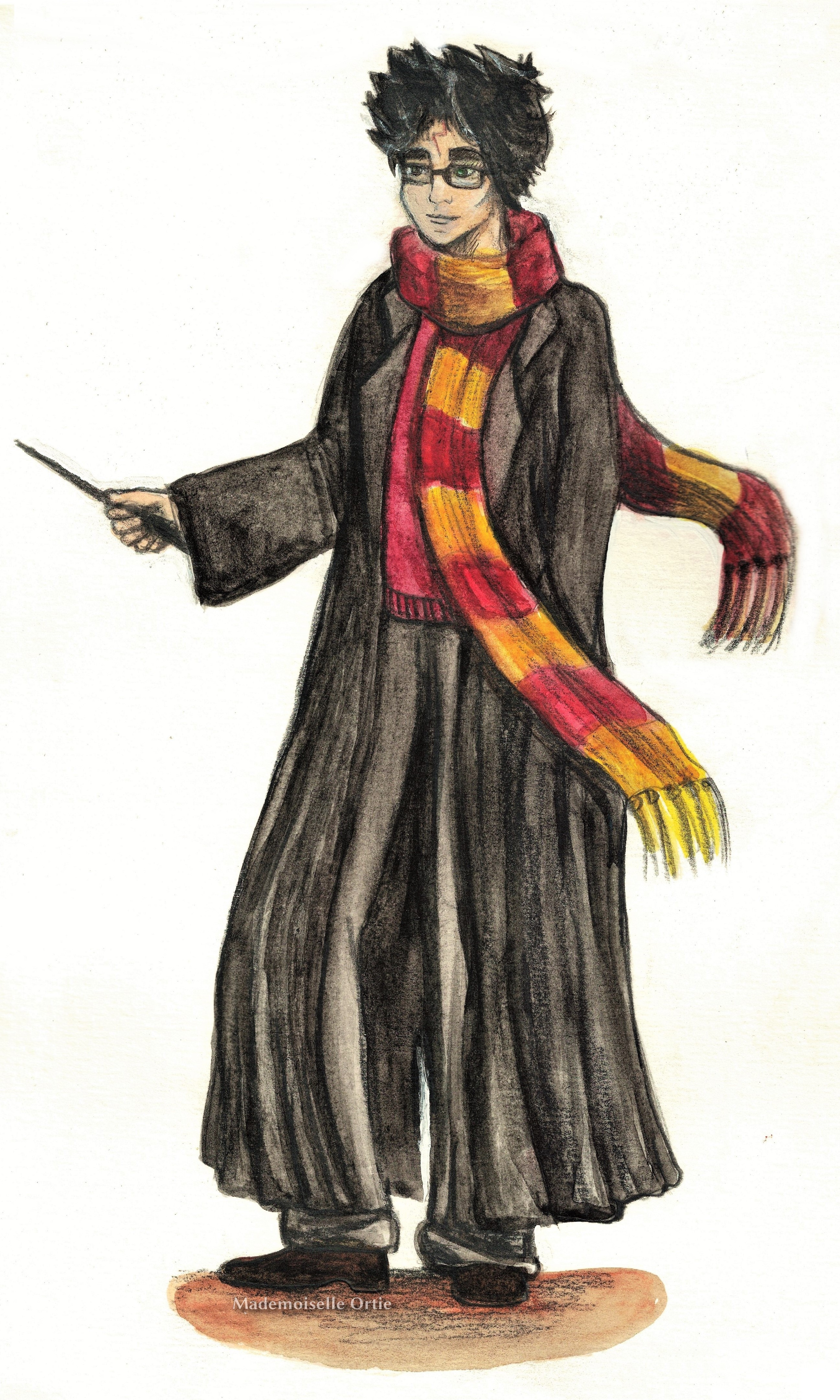 Fan art reprensenting the character Harry Potter made with watercolours and charcoal by Mademoiselle Ortie aka Elodie Tihange. This drawing is not affected by any copyright infringement. See the discussion that previously decided on its conservation.